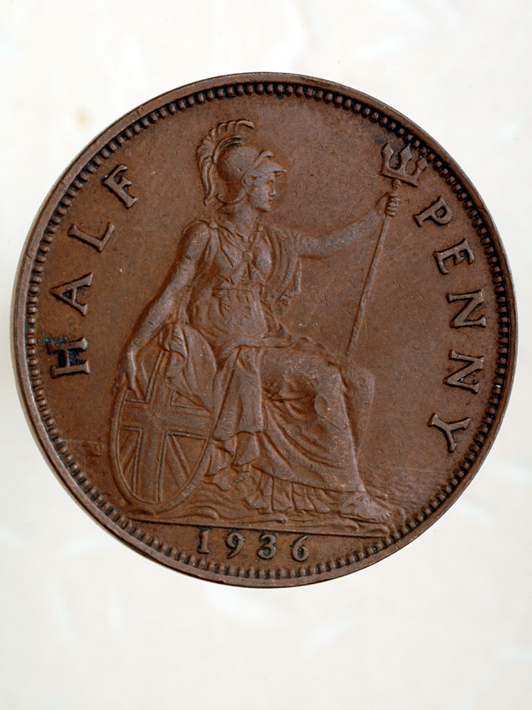 England half penny 1936